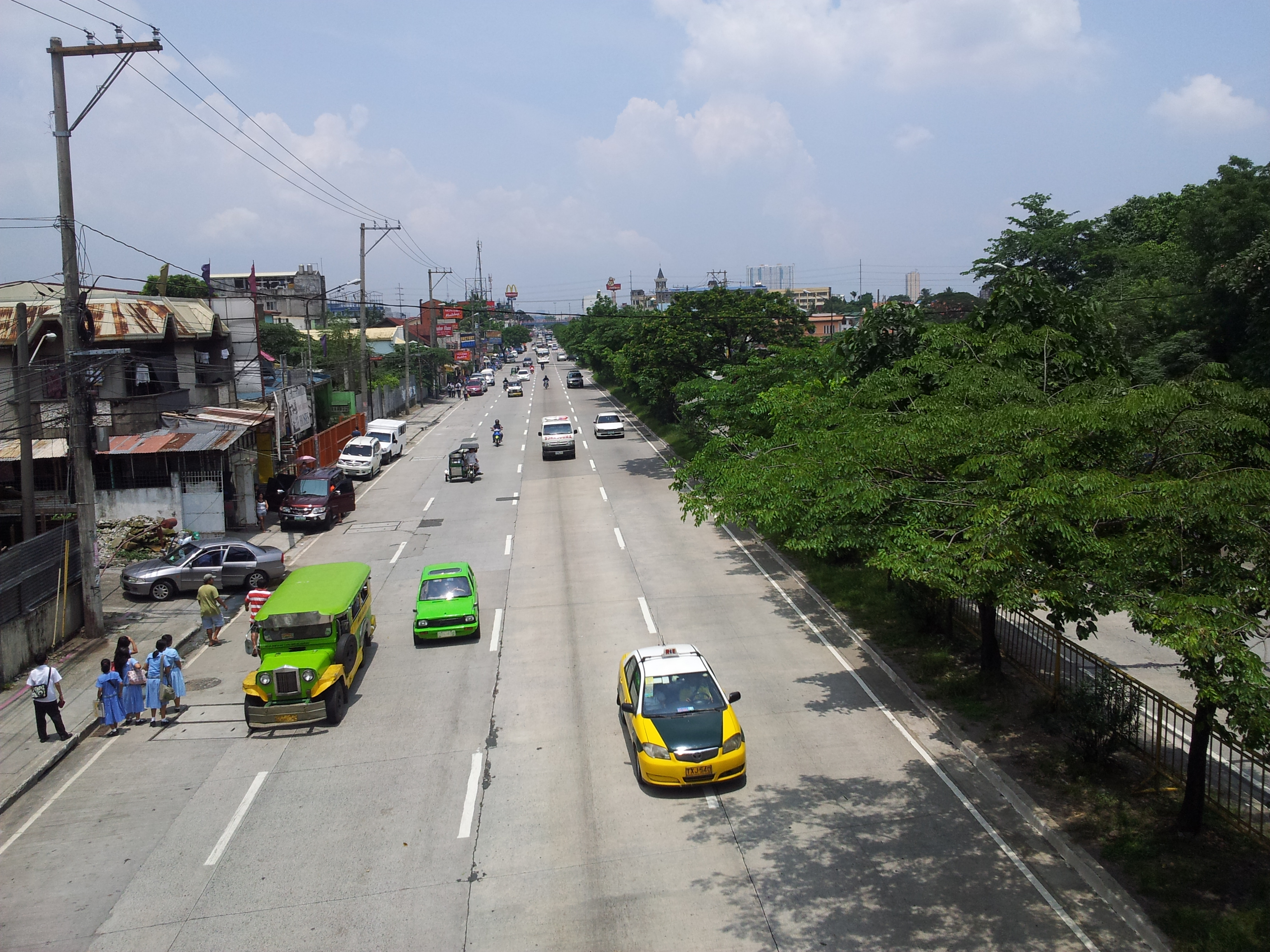 A view of Mindanao Avenue (part of the Circumferential Road 5) in the Tandang Sora district of Quezon City, looking south towards Tandang Sora Avenue and eventually EDSA.